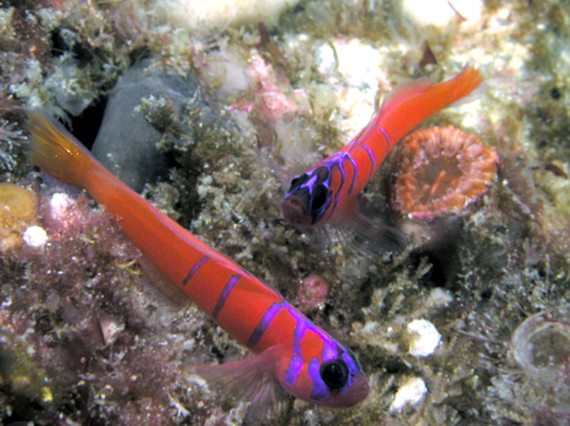 Bluebanded Gobies, San Clemente Island, Channel Islands, California. Image taken by Clark Anderson/Aquaimages.